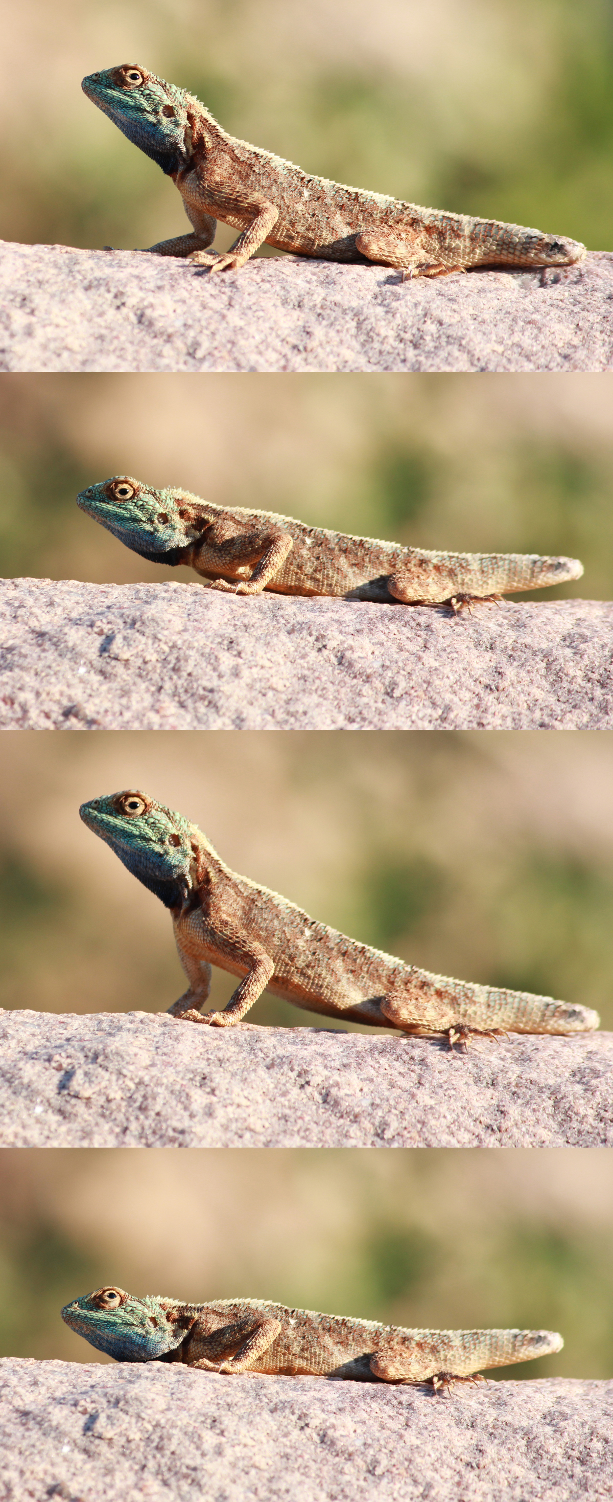 Adult male agama displaying.